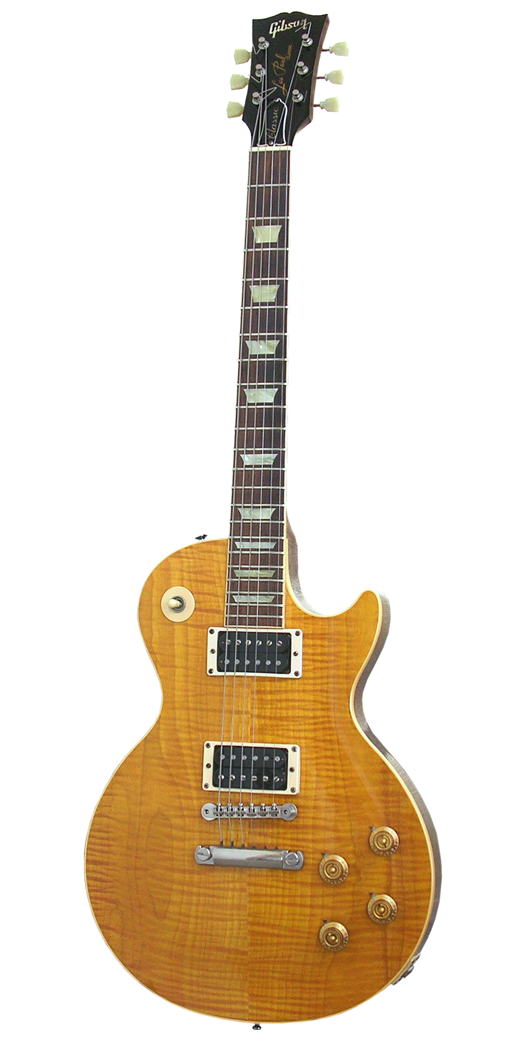 A Gibson Les Paul Classic Premium Plus electric guitar in Trans Amber.